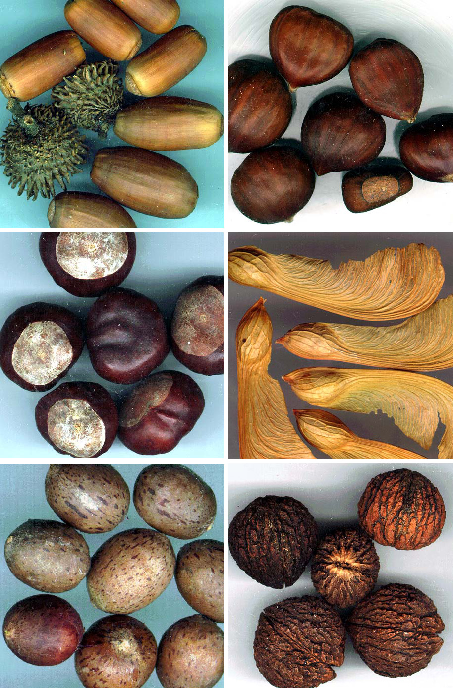 Recalcitrant seed: Quercus cerris, Castanea sativa, Aesculus hippocastanum, Acer sacharinum, Laurus nobilis, and Juglans nigra.